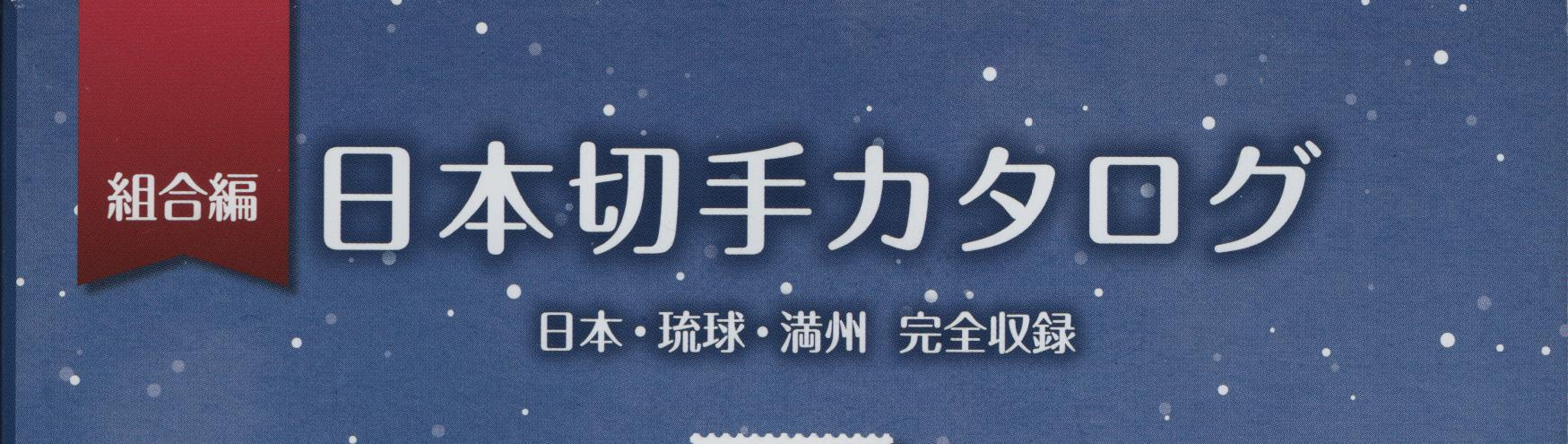 The cover top of the JSDA 2018 (2017.7.15)